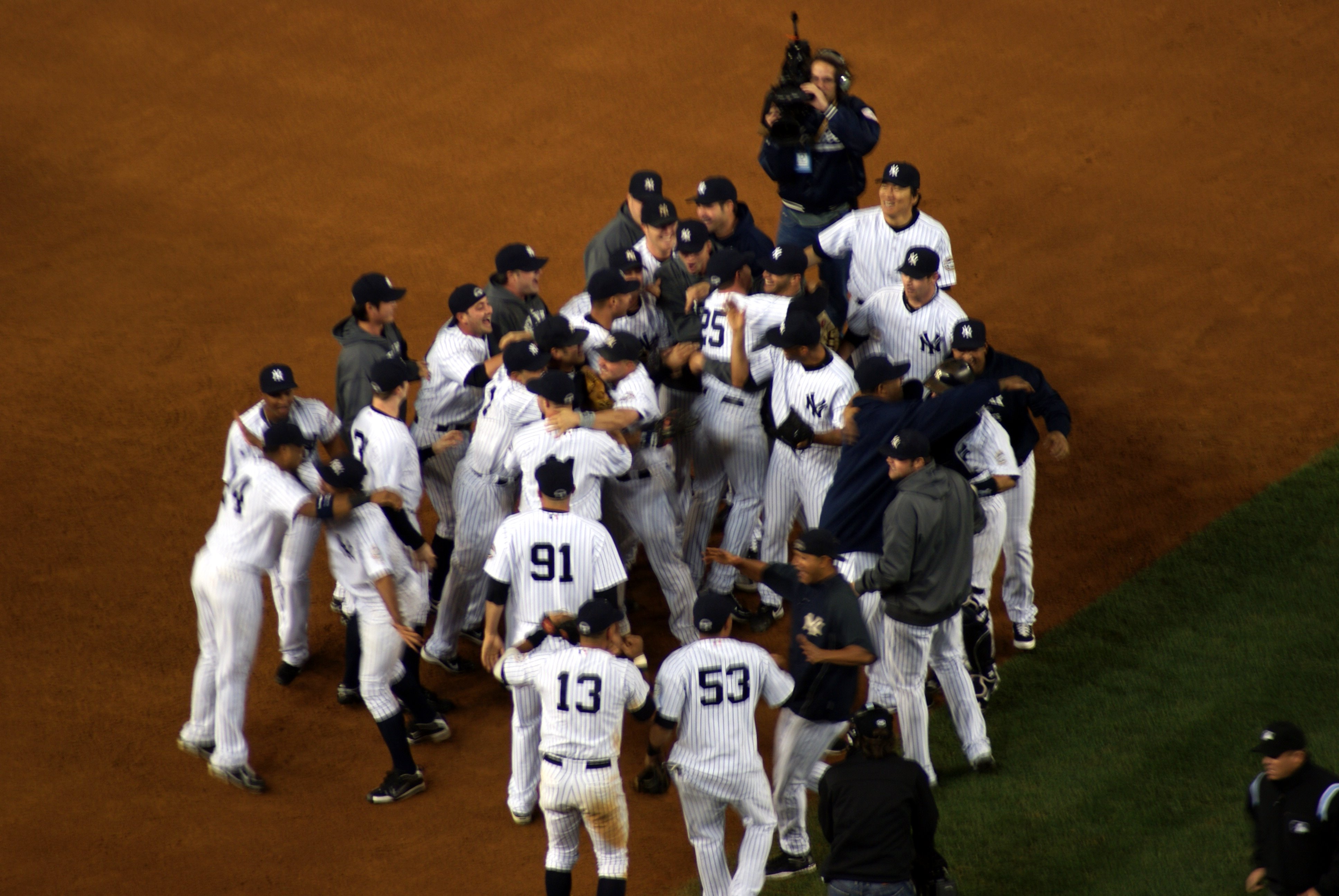 New York Yankees celebrate after 2009 American League Championship Series Game 6.